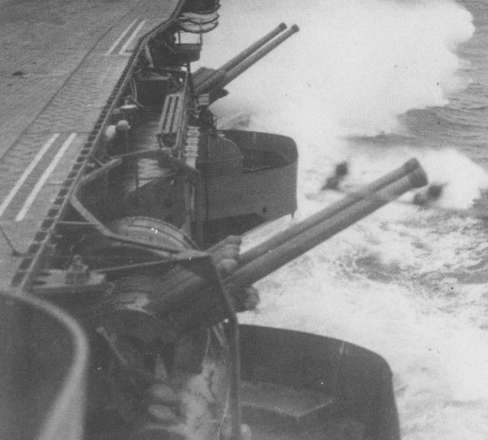 cropped version of Zuikaku November 1941.jpg